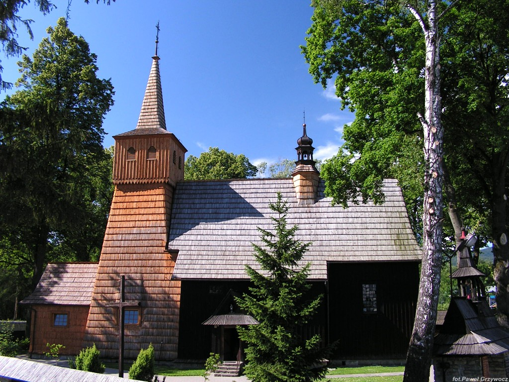 Gothic church in Łopuszna, Poland.